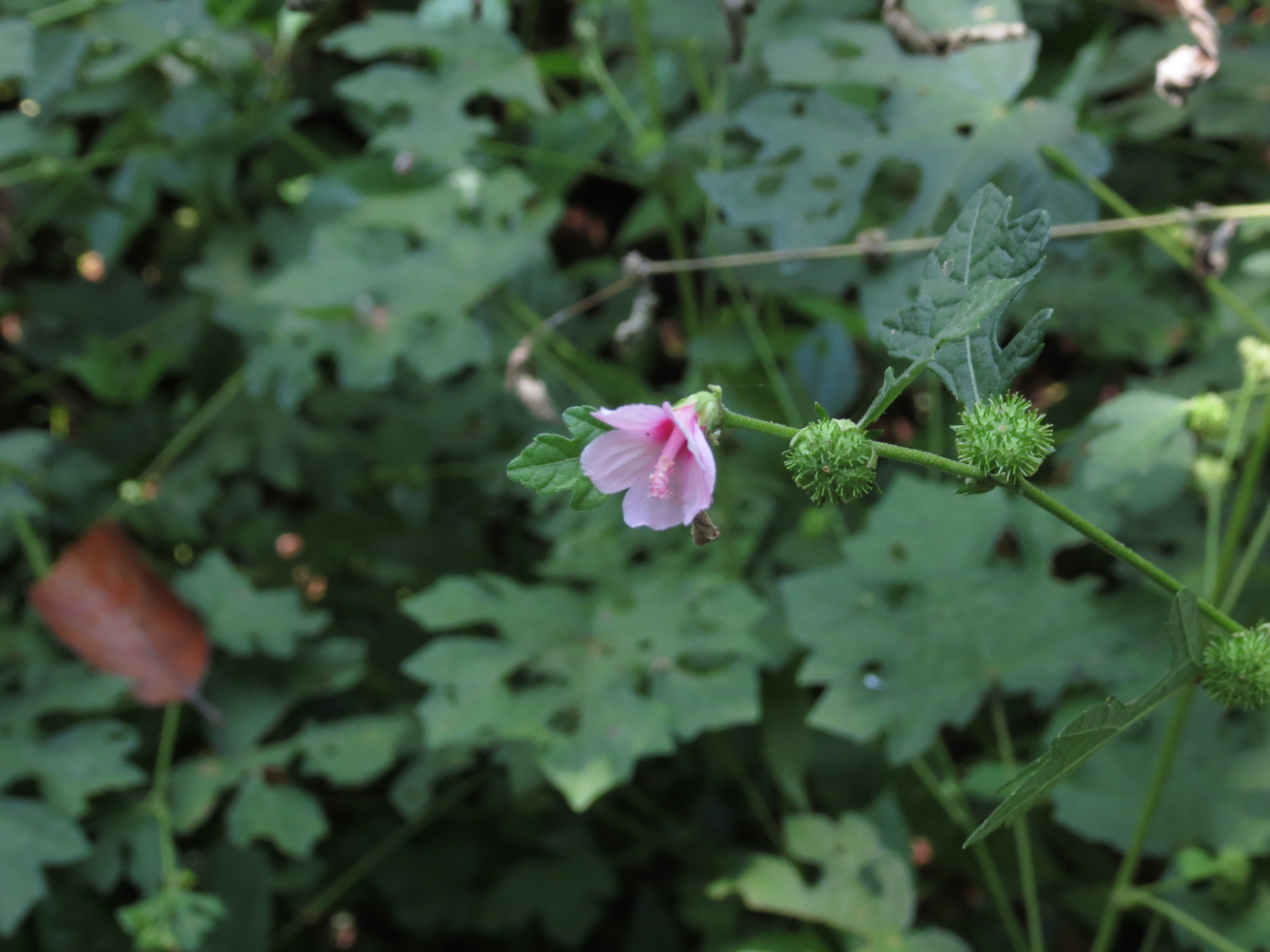 Burr Mallow (Urena sinuata) seen in the property of Cancio's house/Amaral's house in Aldona Goa